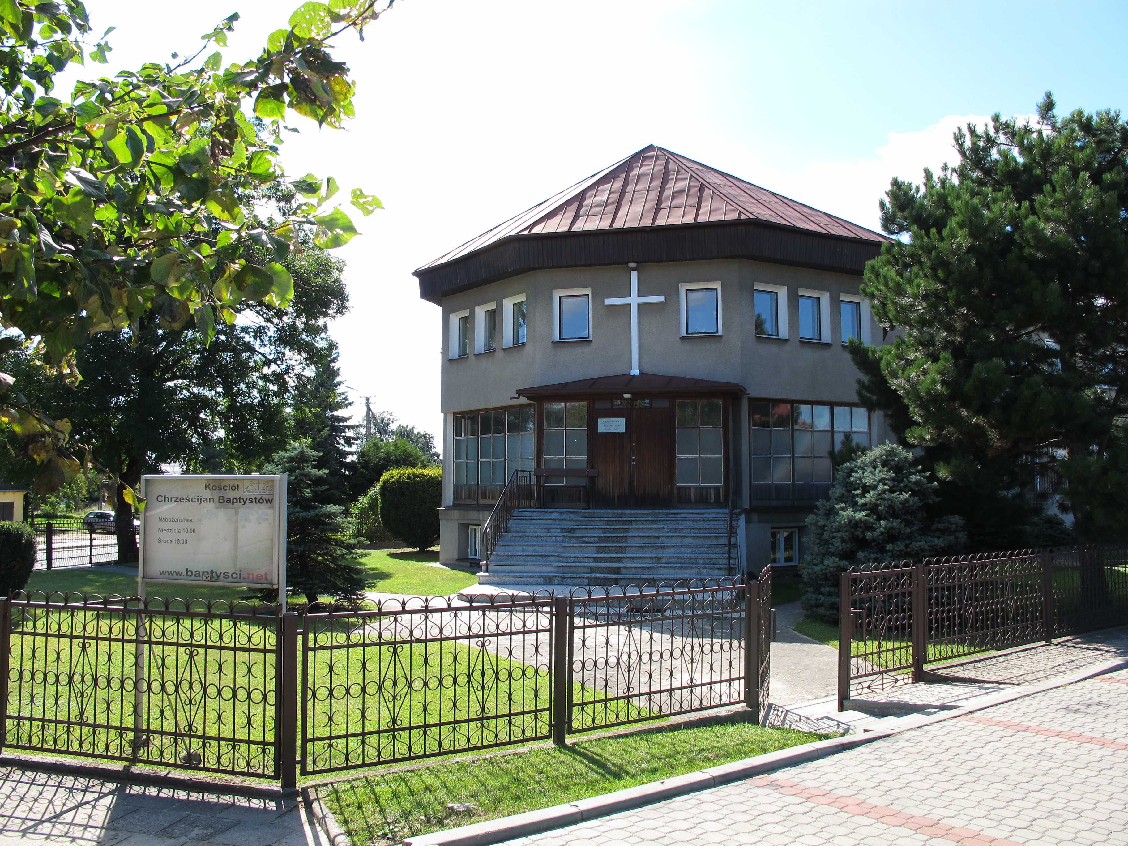 Baptist church by Kazimierzowska 40 street in Bielsk Podlaski, gmina Bielsk Podlaski, podlaskie, Poland.